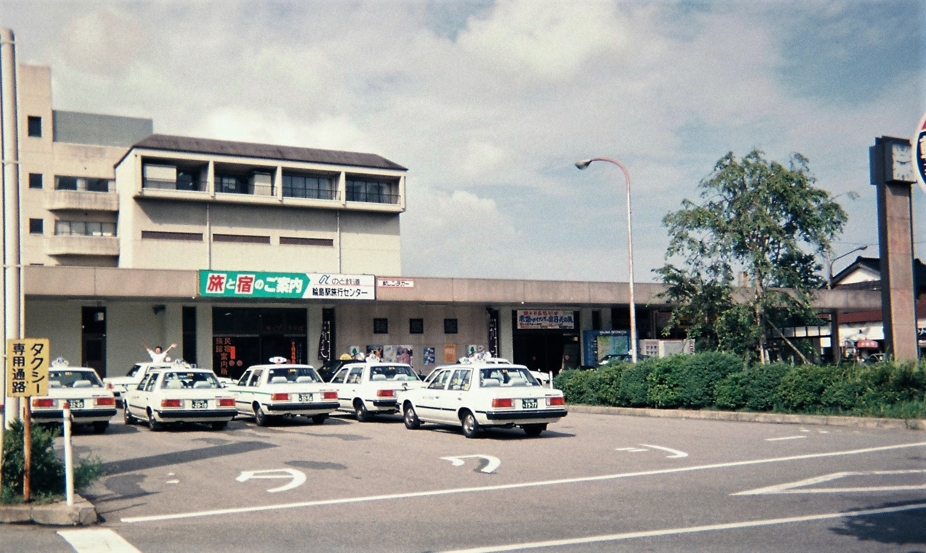 Wajima Station